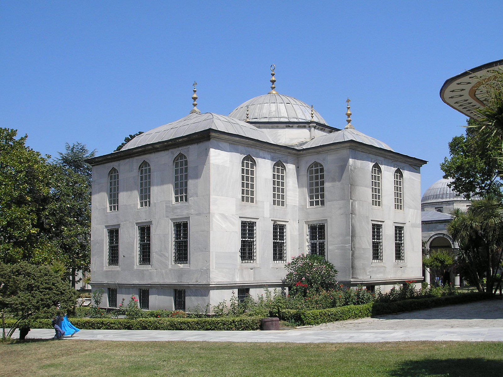 The Neo-classical Enderûn Library (Enderûn Kütüphanesi), also known as Library of Sultan Ahmed III (III. Ahmed Kütüphanesi), is situated directly behind the Audience Chamber (Arz Odası) in the centre of the Third Court of the Topkapi Palace in Istanbul.